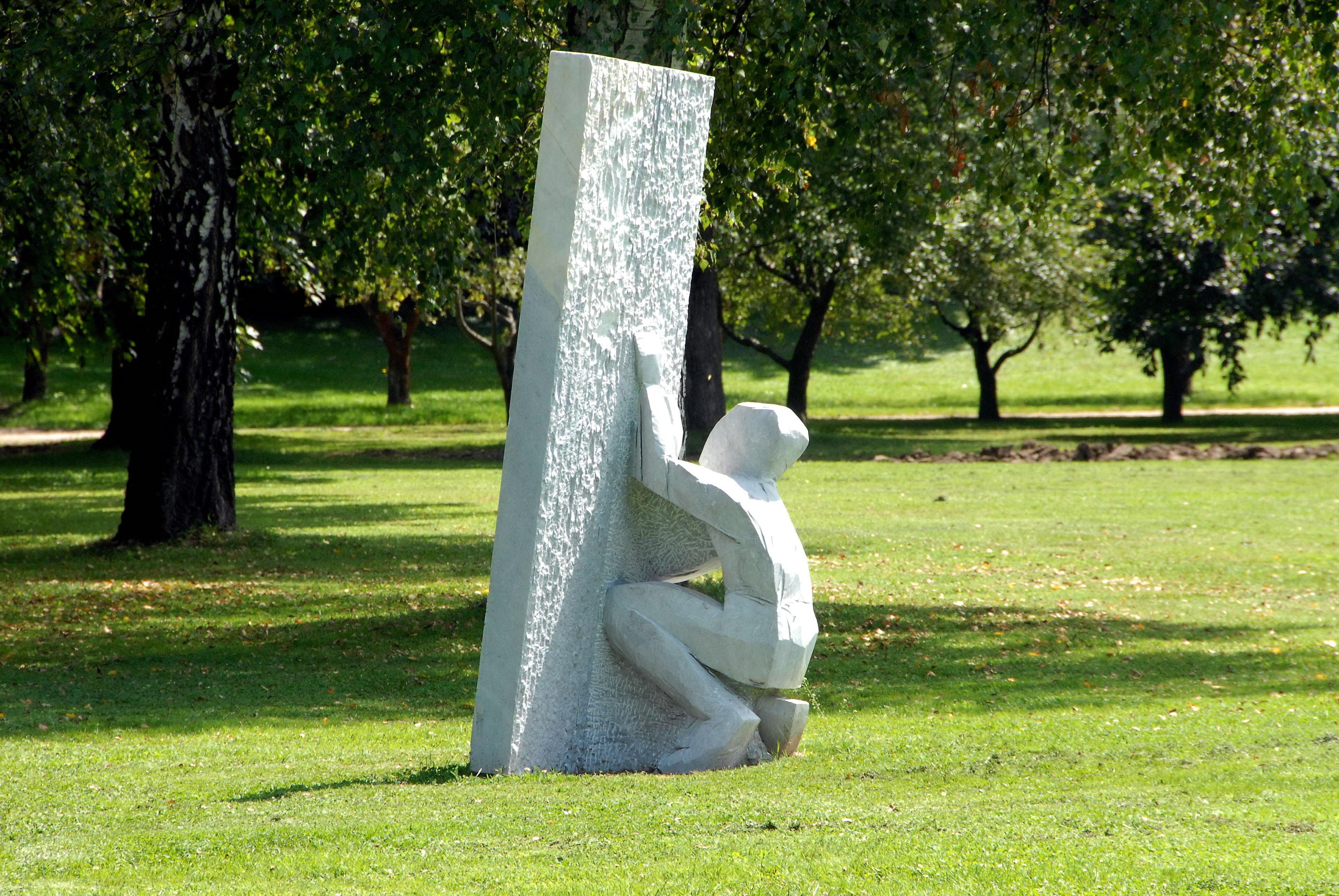 Sculpture "Change", created in 1995 from Krastal marble by the Austrian sculpturist Helmut Machhammer, set up in the Europapark on the eastern shore of Lake Woerth in the district Waidmannsdorf of Klagenfurt, Carinthia, Austria